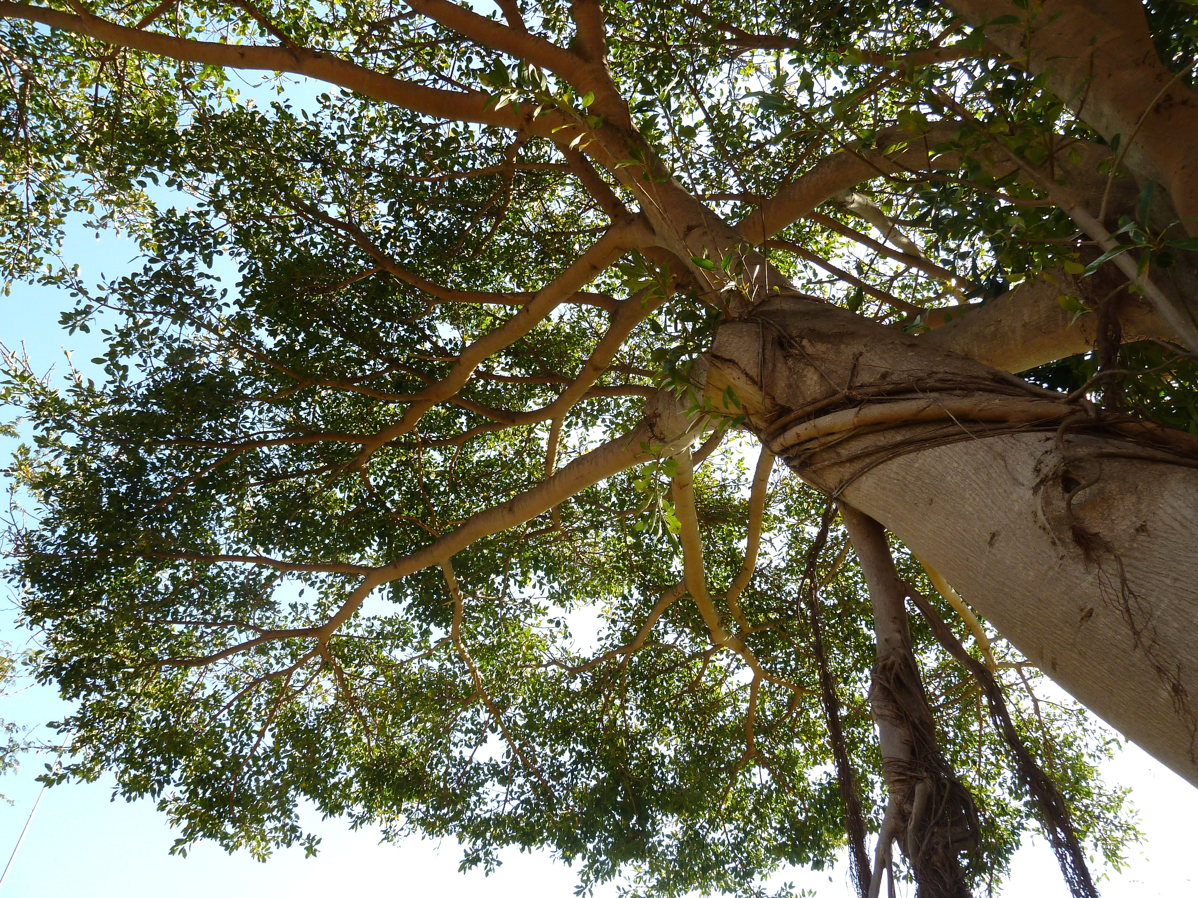 Pale grey trunk and spreading semi-spherical leaf canopy of a Common wild fig, Waterberg, South Africa